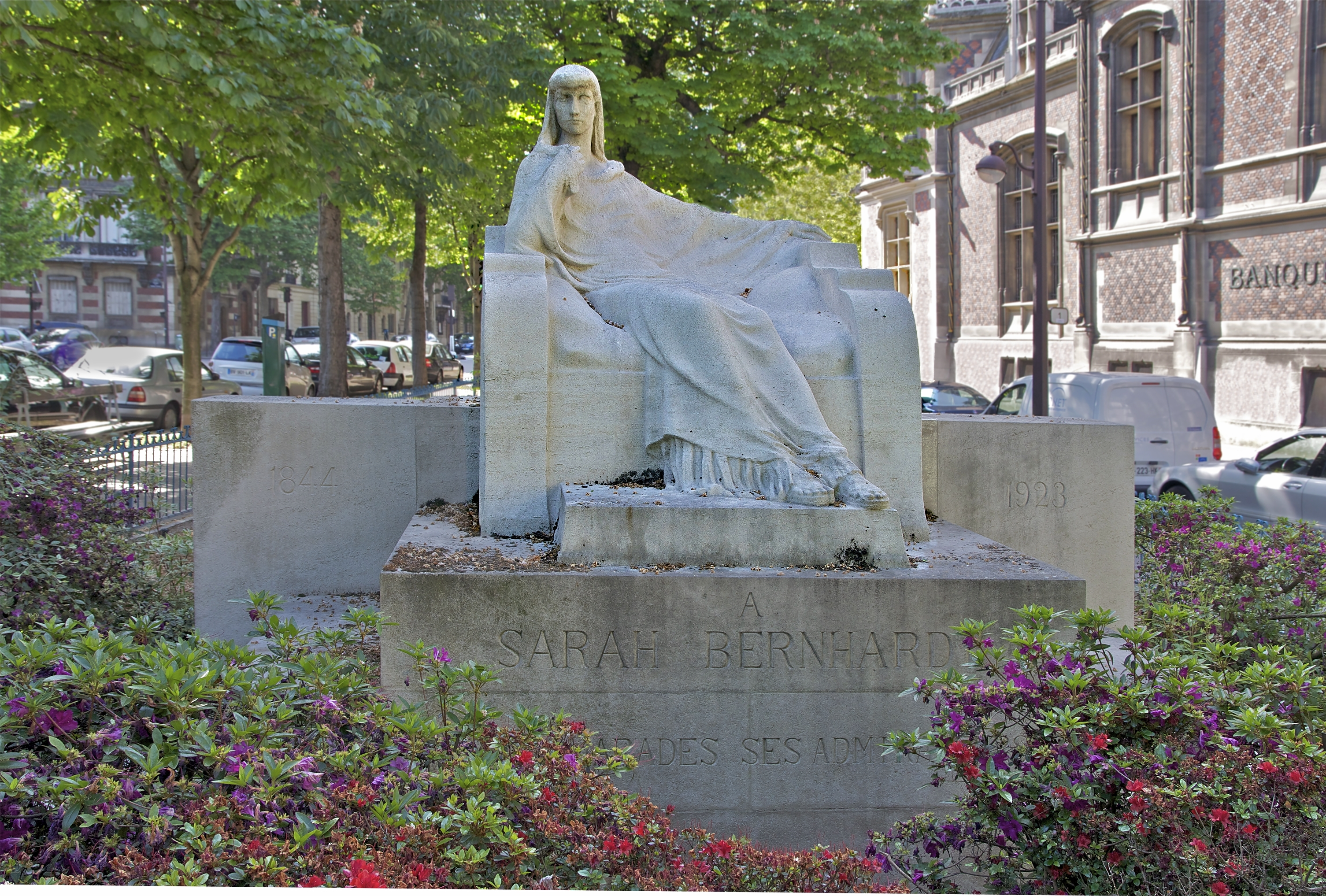 Statue to Sarah Bernhardt, Paris, France.